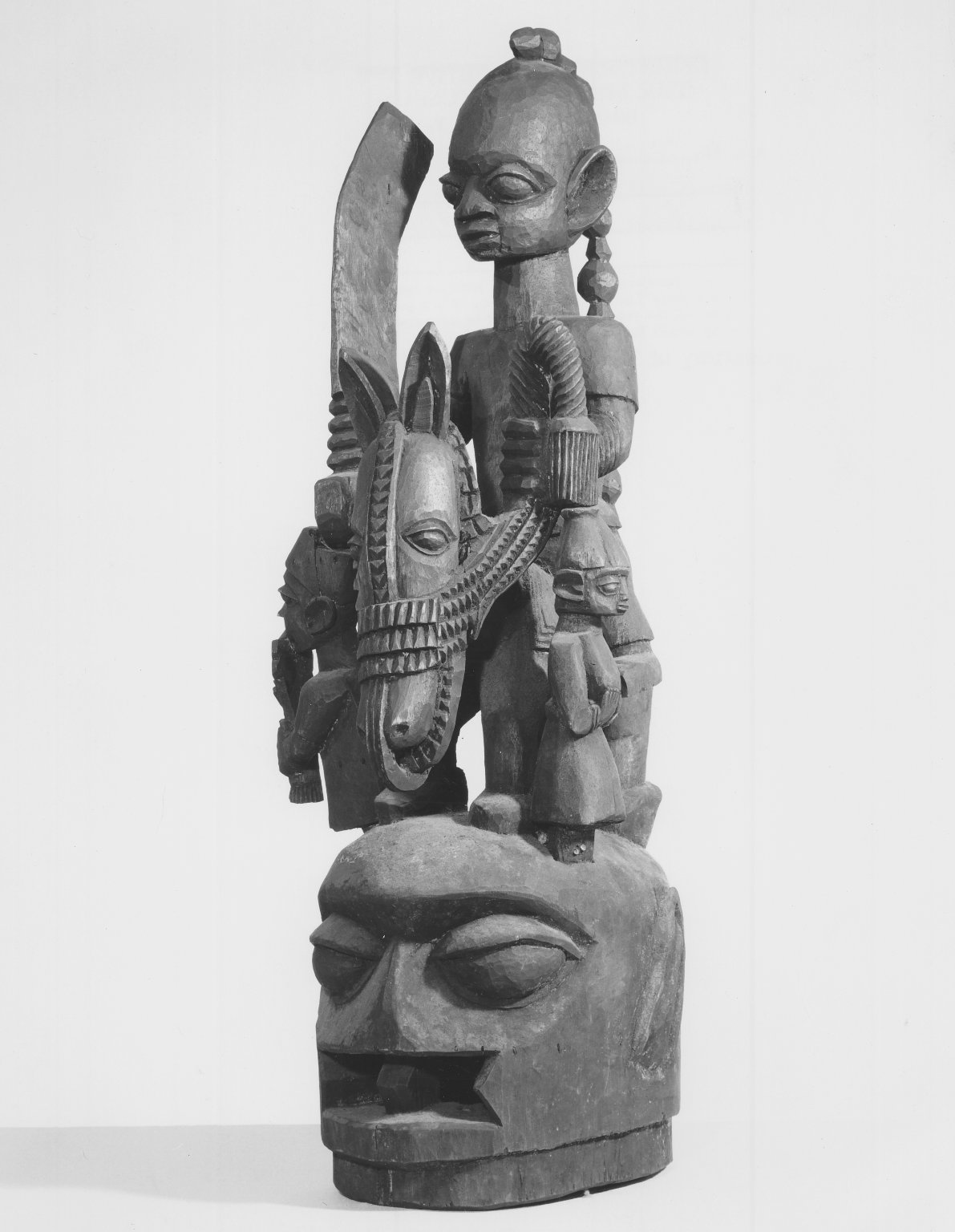 Epa masks are used in masking festivals commemorating the deeds of heroic ancestral warriors, whose stylized faces are represented at the bottom of this mask. These masquerades, which feature ritualized dances, are celebratory reenactments of ancient battles, part real and part mythical. The flanked figure on horseback is a potent reminder of the history of cavalry warfare on the northern edges of the Yoruba realms.